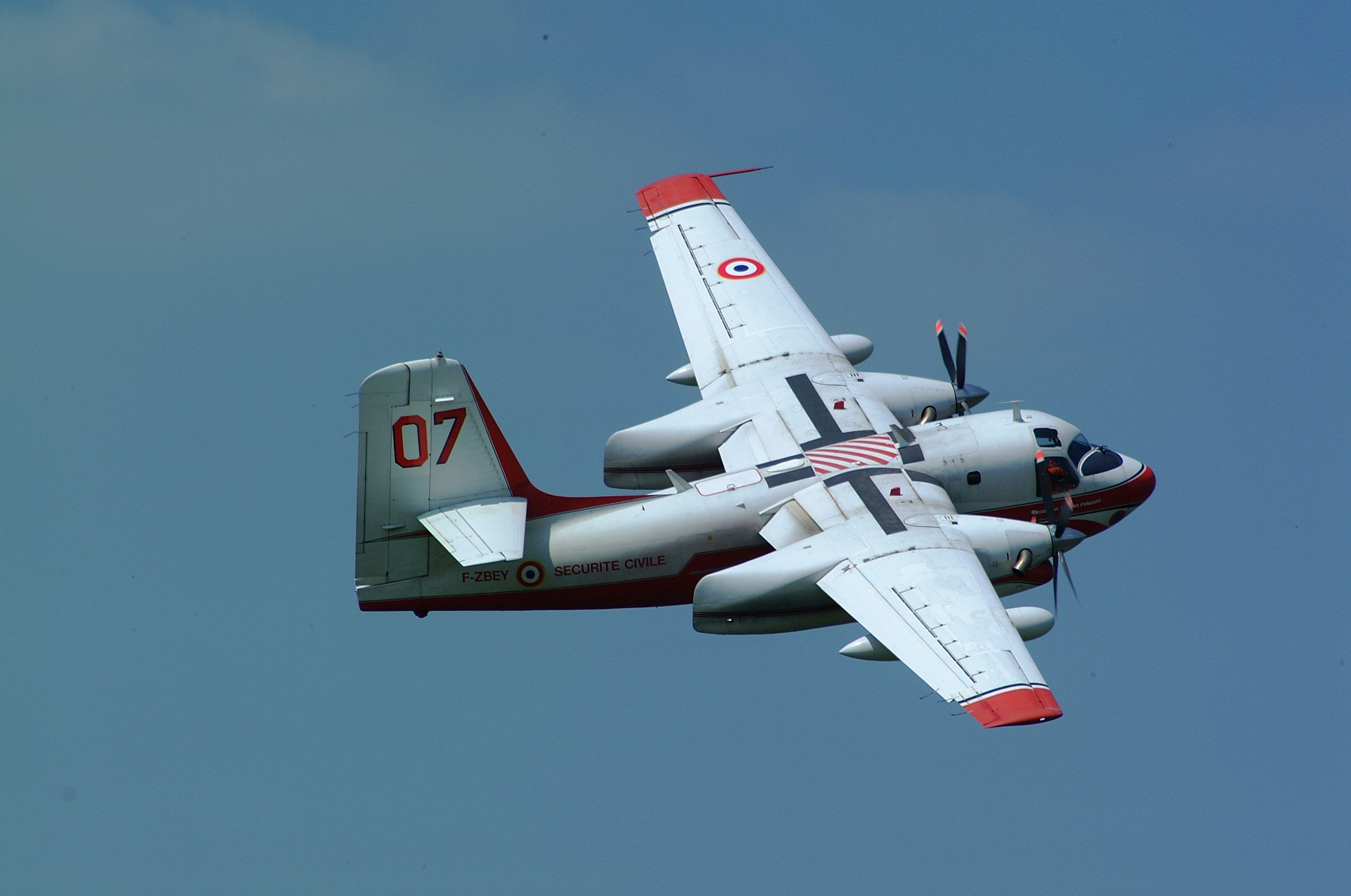 This old Tracker used to belong to the Canadian Navy